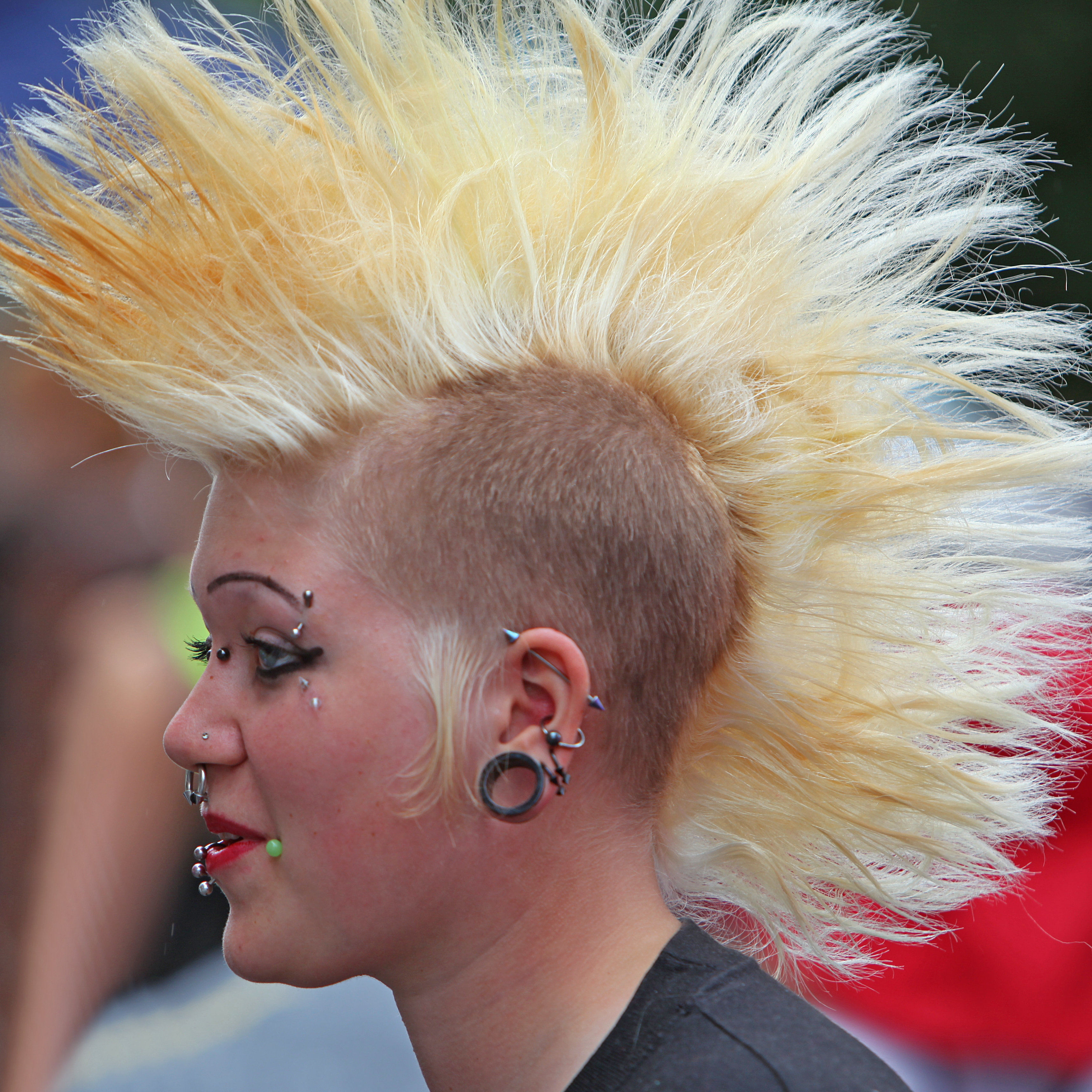 Person with mohawk and piercings, Stockholm Pride Festival 2009, Lukas Celciuz Ljungcrantz